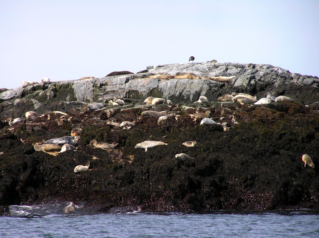 Gray seals and harbor seals sun themselves on North Rock, south of Grand Manan, New Brunswick. North Rock and Machias Seal Island are in the northern Gulf of Maine to the southeast of Machias, Maine. Although nominally in the State of Maine and United States, the islands are claimed by Canada on the basis of their improvements for navigation.